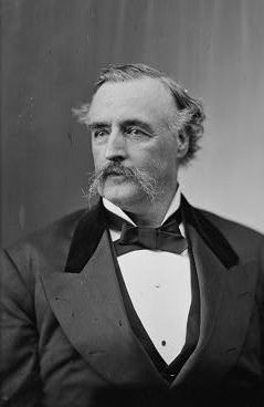 William Fletcher Sapp (1833 - 1916), a U.S. Representative from Iowa